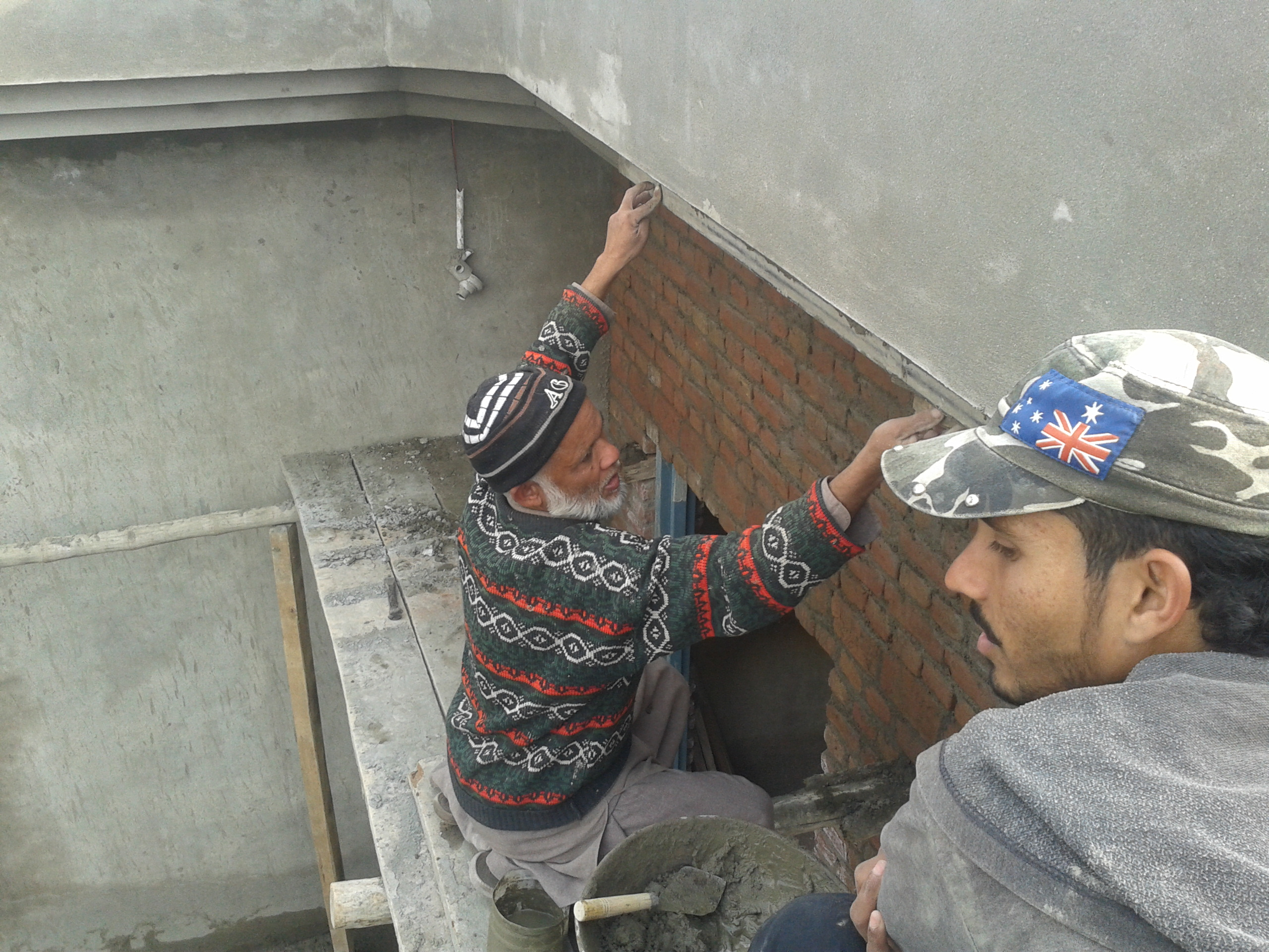 Labour force working in Dina tehsil, Punjab, Pakistan